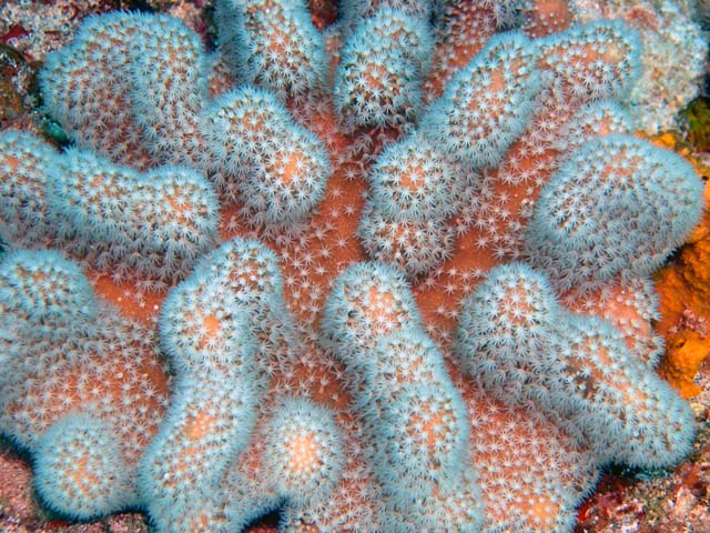 Mushroom leather coral (Sarcophyton sp.), Pulau Aur, West Malaysia